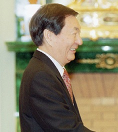 THE KREMLIN, MOSCOW. Zhu Rongji, Chinese State Council Prime Minister.